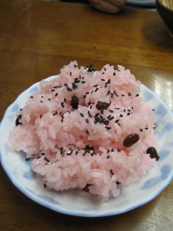 sticky rice steamed with sasage beans @toumiya, nakanojo, gumma